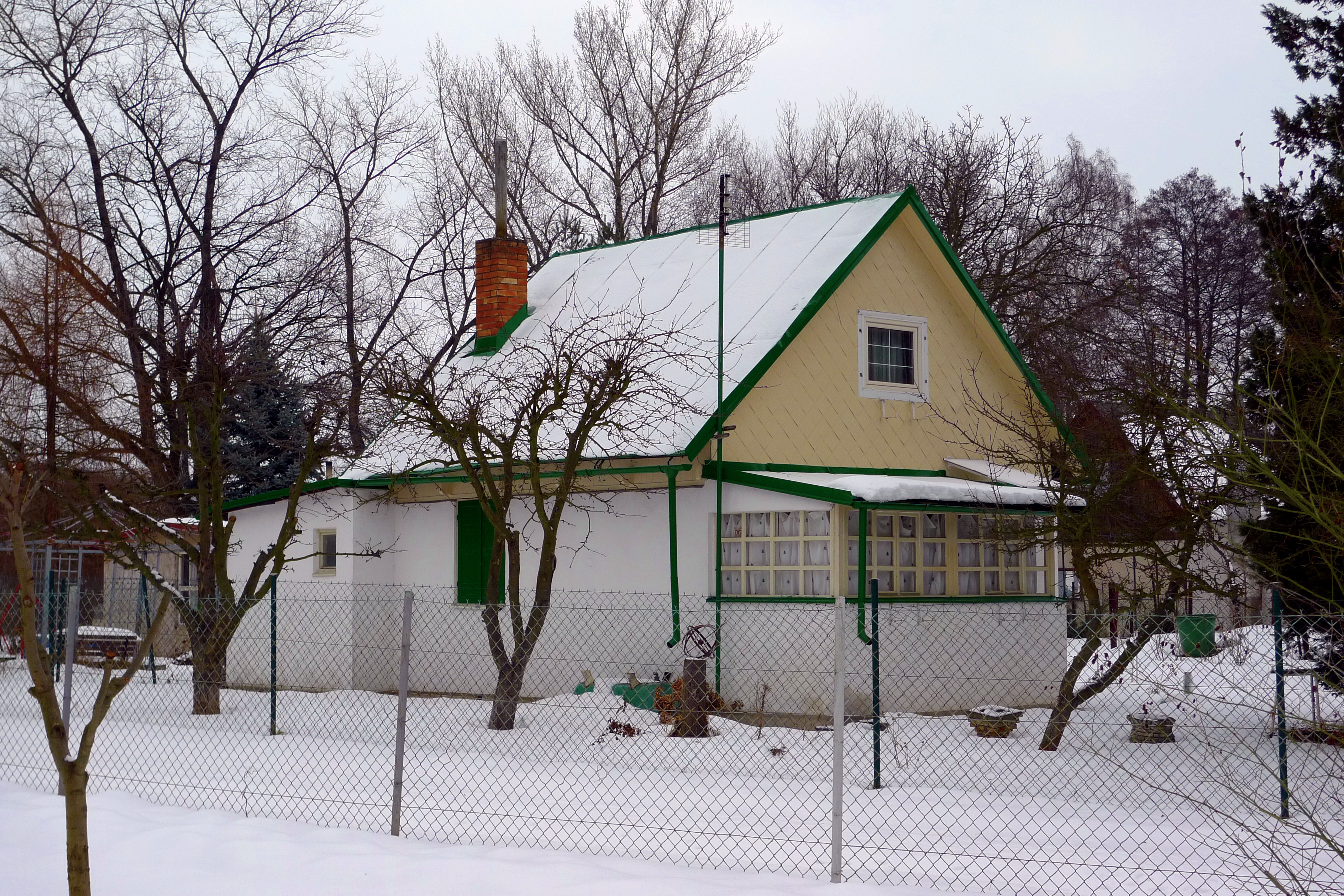 Allotments of Felinka near Ostrá, Czech Republic Česky: Chatová osada Felinka u Ostré v okresu Nymburk